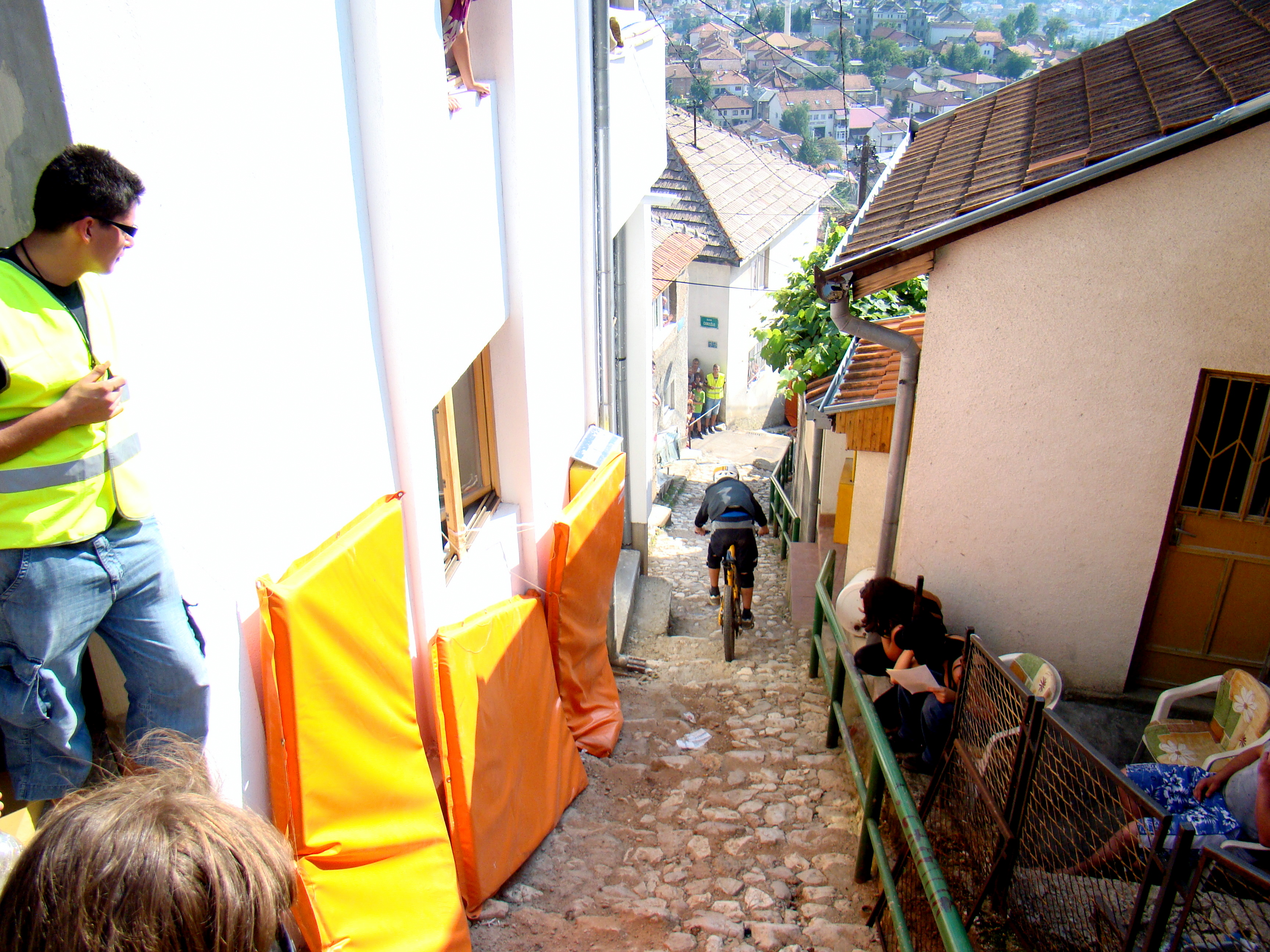 picture of a urban downhill cycling race held in sarajevo, in this photo a small section of the track is visible